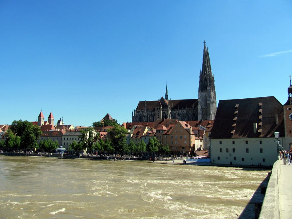 View of the city from the bridge.